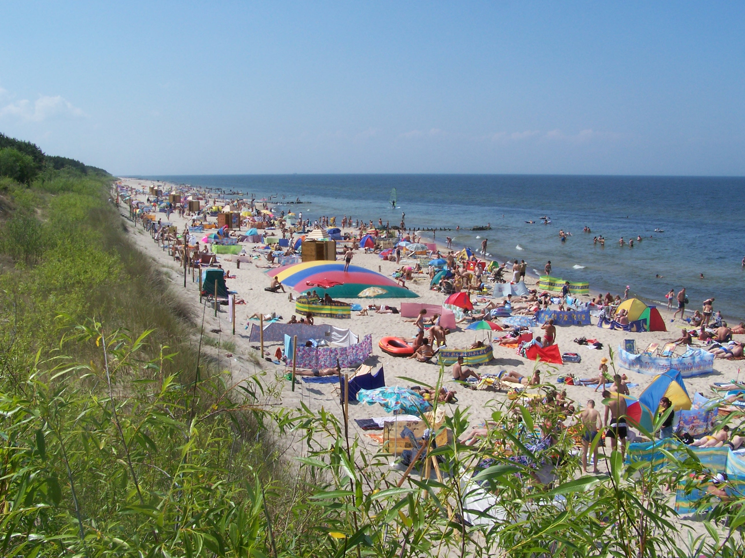 Dziwnówek, Poland - public beach at Baltic Sea